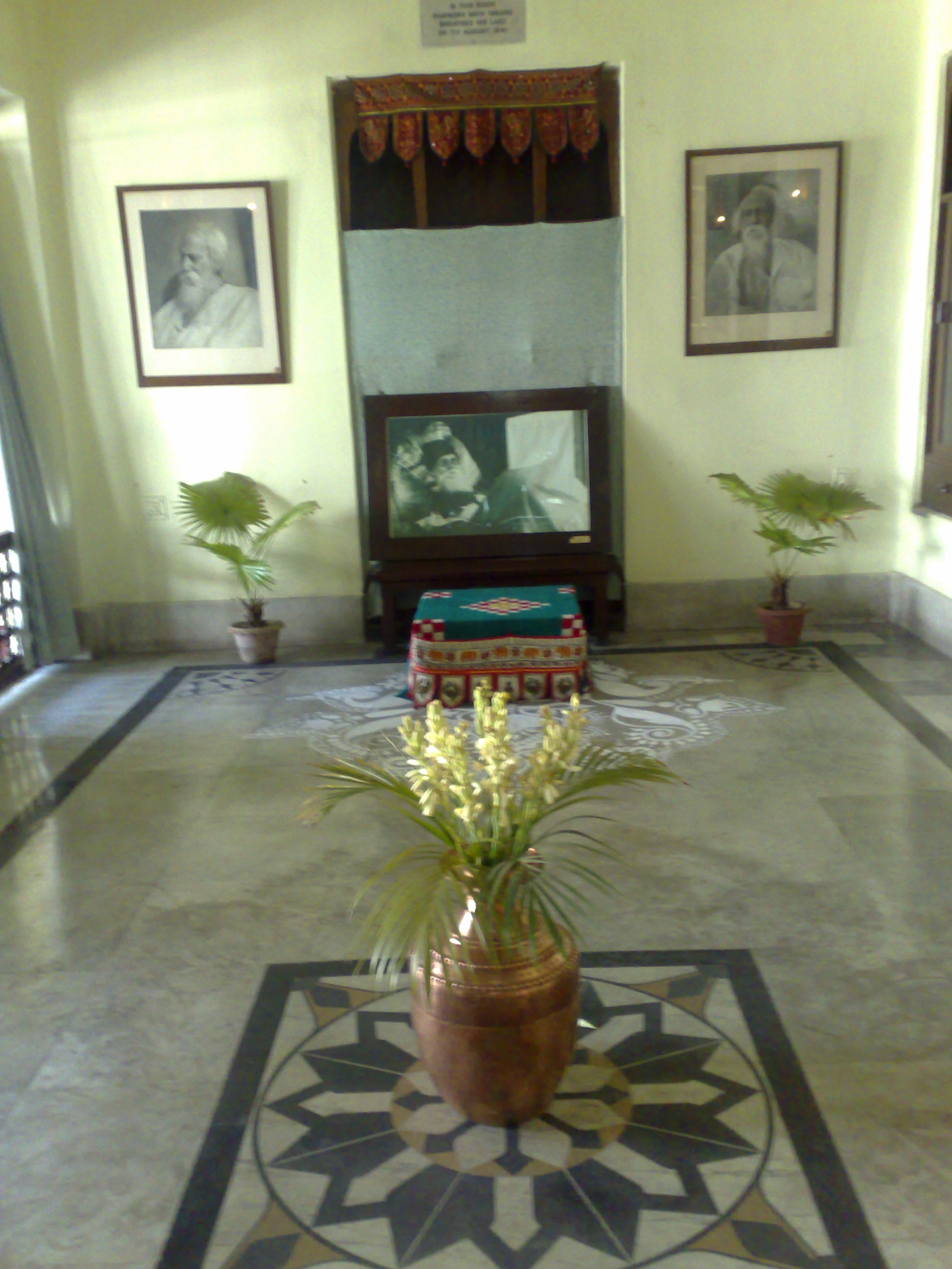 The location where brilliant Indian poet and Nobel laureate Rabindranath Tagore was both born and died... This is the room in which Tagore died.